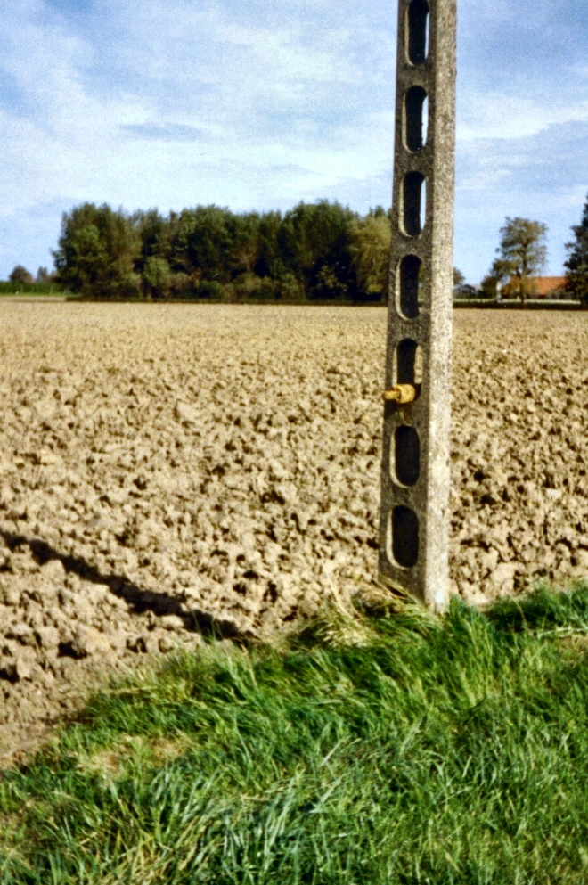 Stokes trench mortar bomb from WW1 left in a telegraph pole for disposal by the army in 2004 near Ieper in Belgium. The "iron harvest" - World War One shells churned up by farmers in modern-day Flanders, Belgium, on the site of the Western Front of World War One. Photograph by User:Redvers originally from wikipedia, now transferred to Commons. Note that the photograph has been altered by the author since the original upload and that the licence status has changed from Own Work GDFL to the more explicitly free Own Work Public Domain All Rights Released.